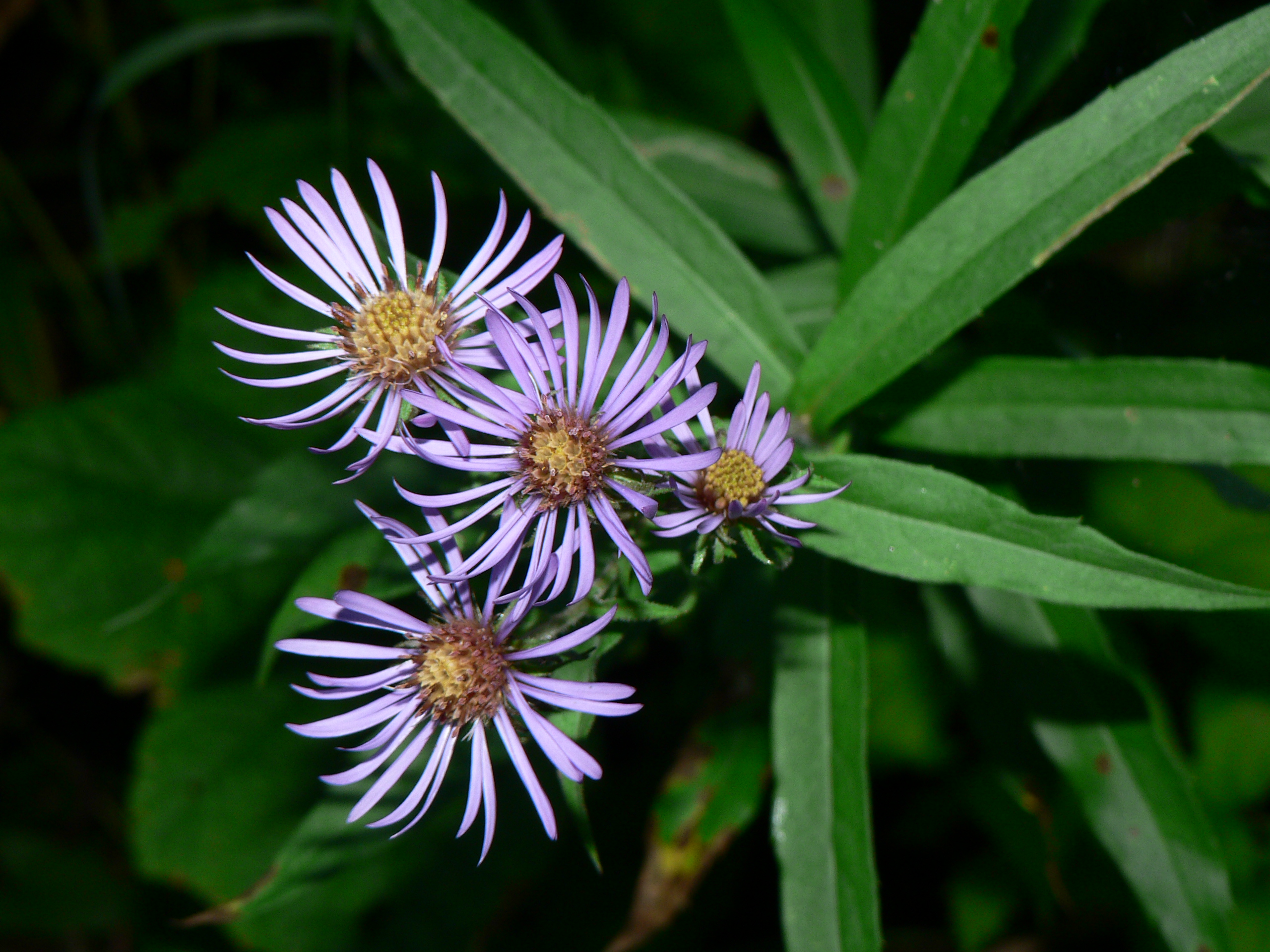 Giant Mountain Aster